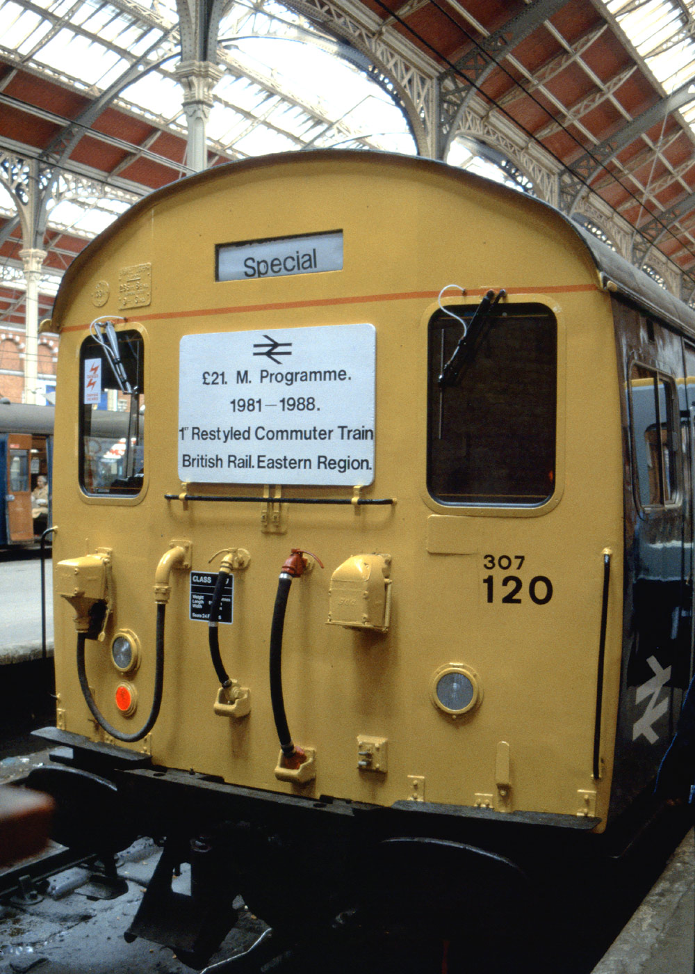 Refurbished British Railways class 307 train showing the special headboard carried at the launch of the first refurbished train.